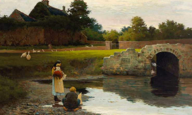 Probably the mouth of the Santry River at Raheny on the Dublin coast, as painted by Joseph Malachy Kavanagh, 1895.